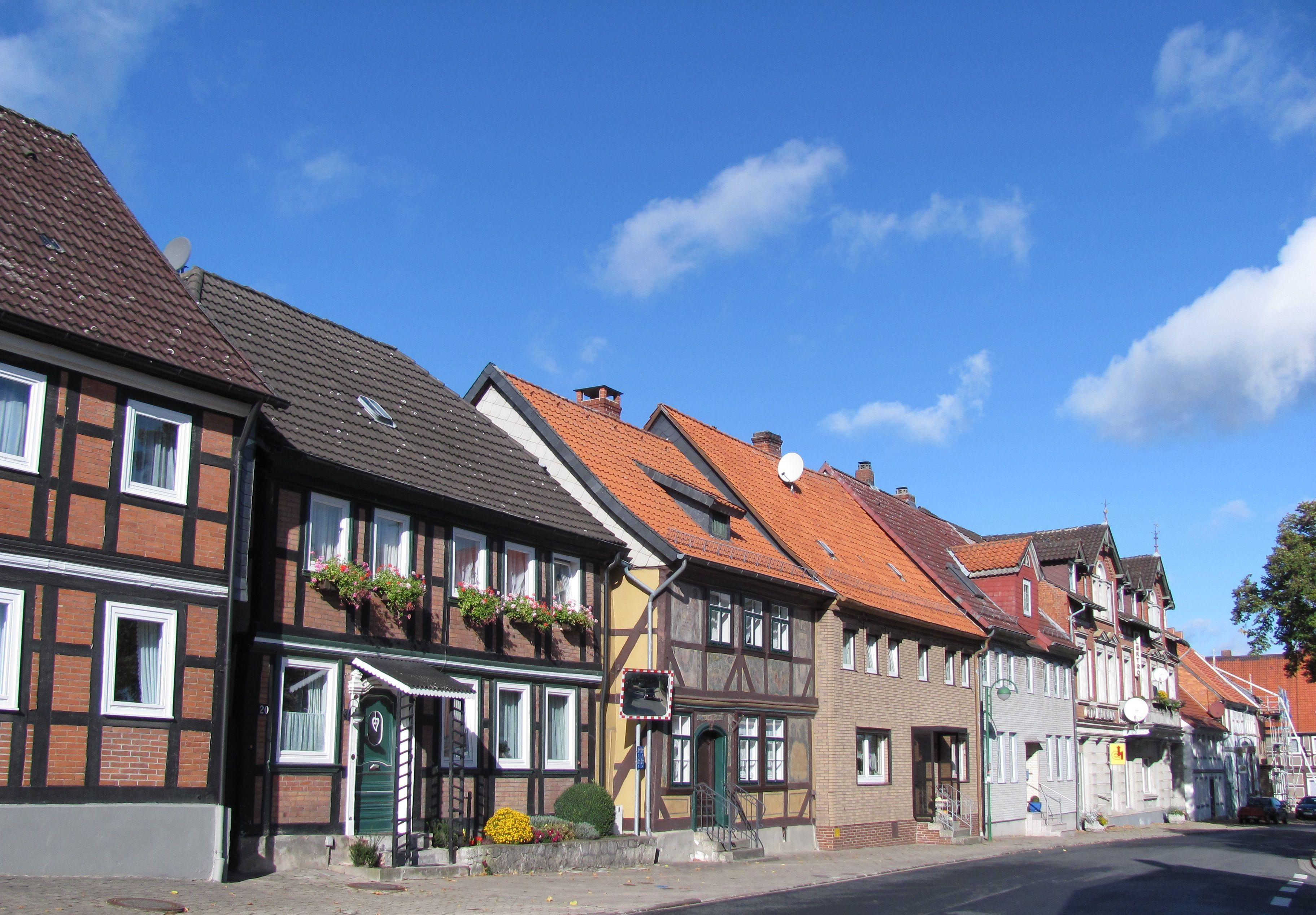 High Street, Wrisbergholzen near Hildesheim, Lower Saxony, Germany